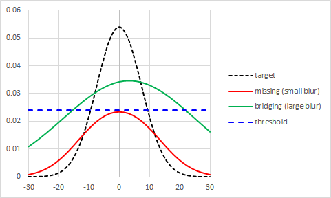 A missing feature defect can result from stochastic underexposure (red) while a bridging defect can result from stochastic overexposure (green). These stochastic deviations from the nominal exposure arise from photon shot noise. Following exposure, various physical and chemical mechanisms (e.g., secondary electrons, acid diffusion, flare, aberrations, heating) "blur" the image. Ref.